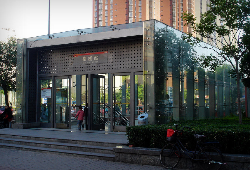 Haiguangsi St. (Line 1)